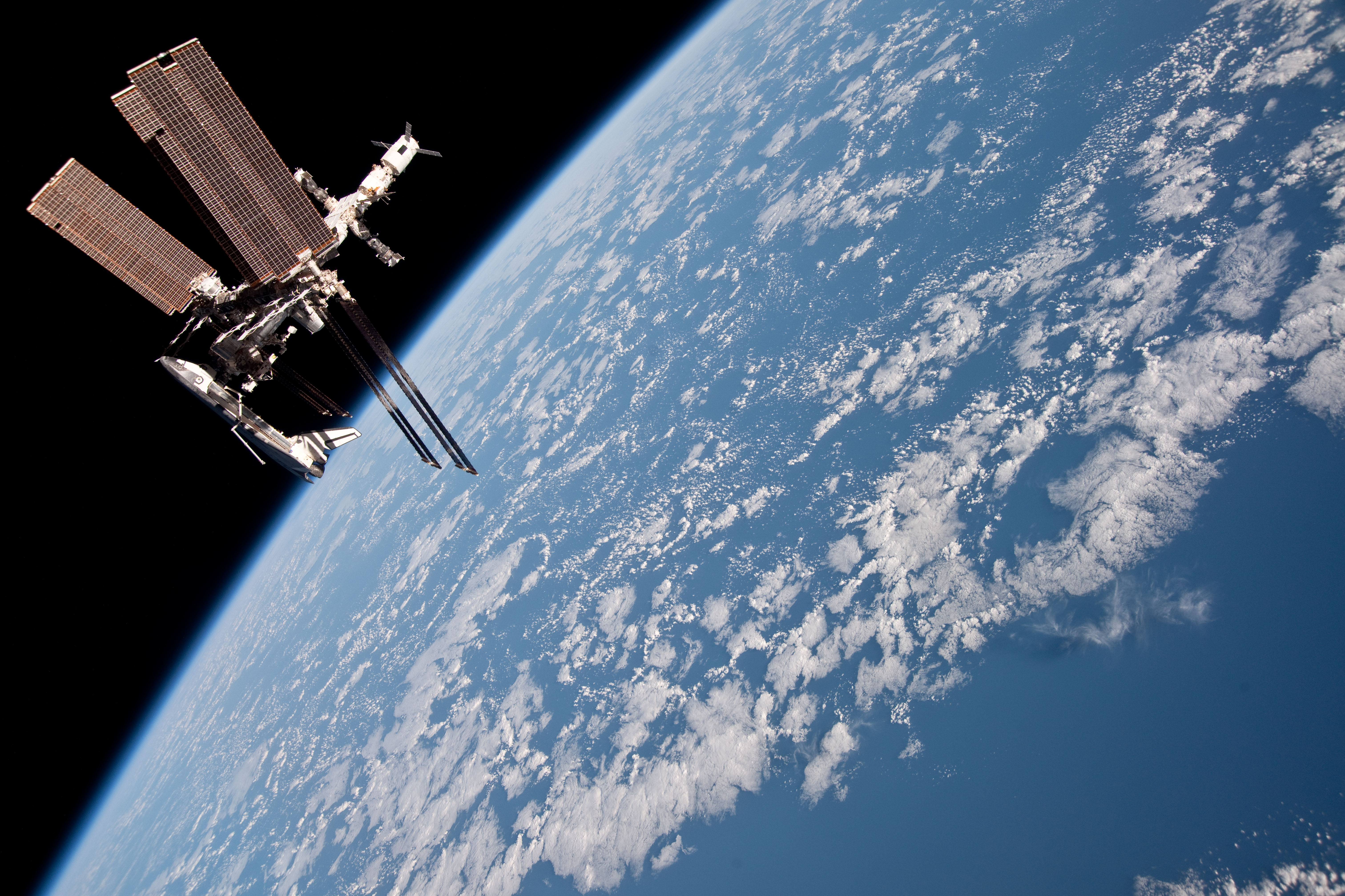 This image of the International Space Station and the docked space shuttle Endeavour, flying at an altitude of approximately 220 miles, was taken by Expedition 27 crew member Paolo Nespoli from the Soyuz TMA-20 following its undocking on May 23, 2011 (USA time). The pictures taken by Nespoli are the first taken of a shuttle docked to the International Space Station from the perspective of a Russian Soyuz spacecraft. Onboard the Soyuz were Russian cosmonaut and Expedition 27 commander Dmitry Kondratyev; Nespoli, a European Space Agency astronaut; and NASA astronaut Cady Coleman. Coleman and Nespoli were both flight engineers. The three landed in Kazakhstan later that day, completing 159 days in space.